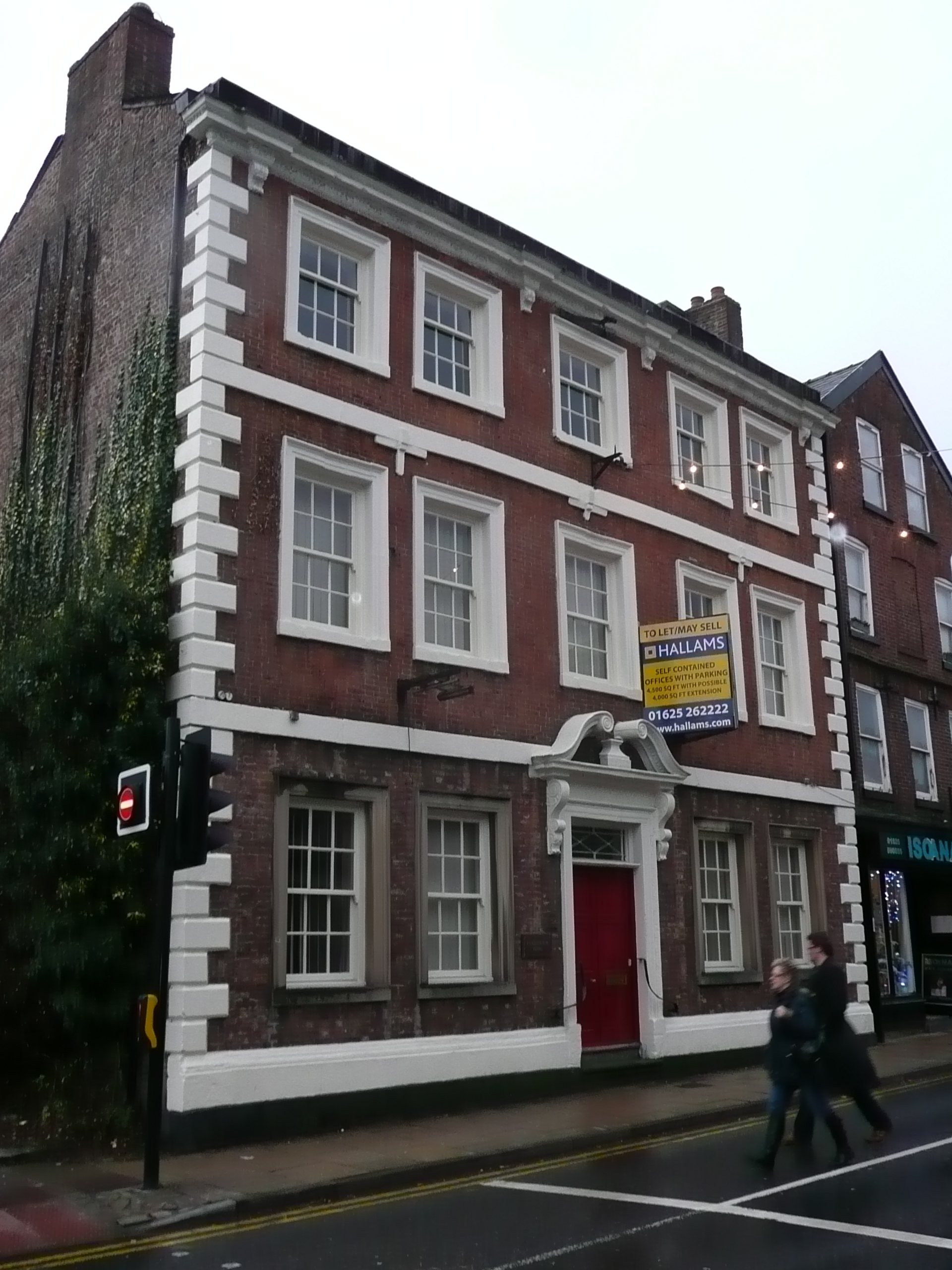 60-62 Chestergate, Macclesfield. Built c. 1700